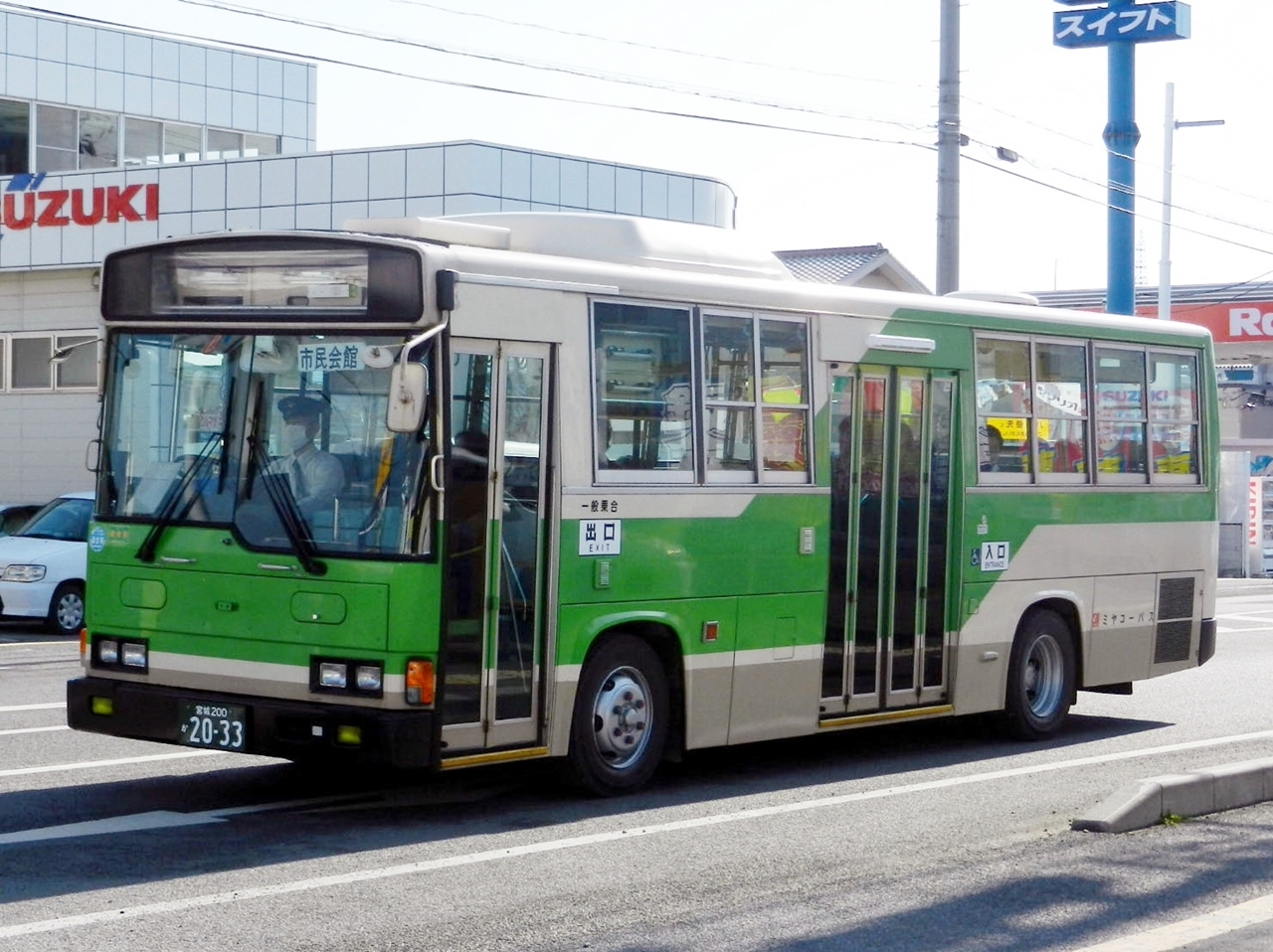 Miyako bus(Kesennuma office) Hino Rainbow(KC-RJ1JJCK,from Tokyo Toei bus)